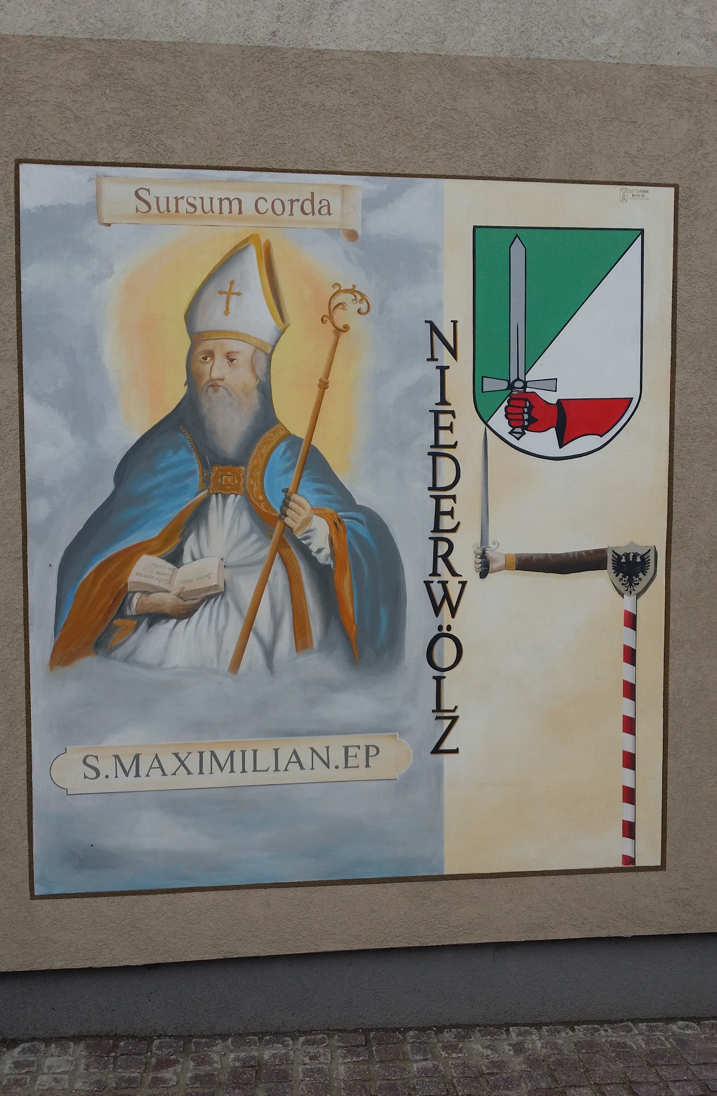 Picture of Saint Maximilian of Lorch painted on the wall of a building in Niederwölz.